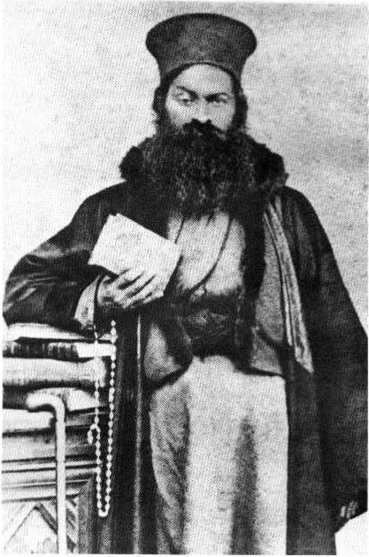 Vasil Levski's Uncle Arhimandrid Vasily